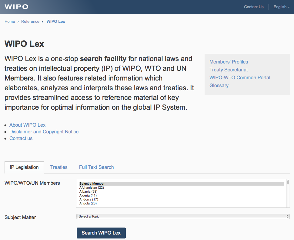 Screenshot of the WIPO Lex main page in the English language (2016)